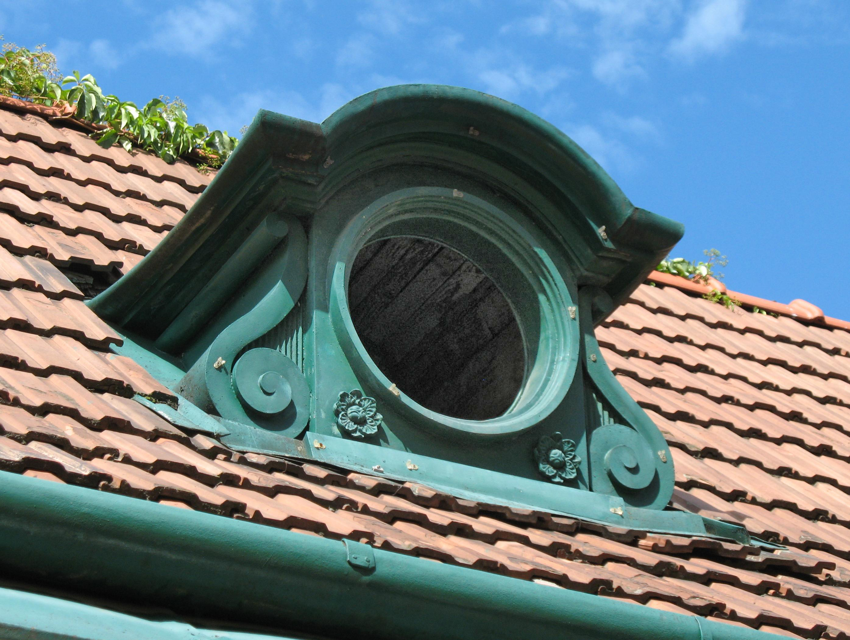 Round oeil-de-boeuf dormer in Vienna, Austria